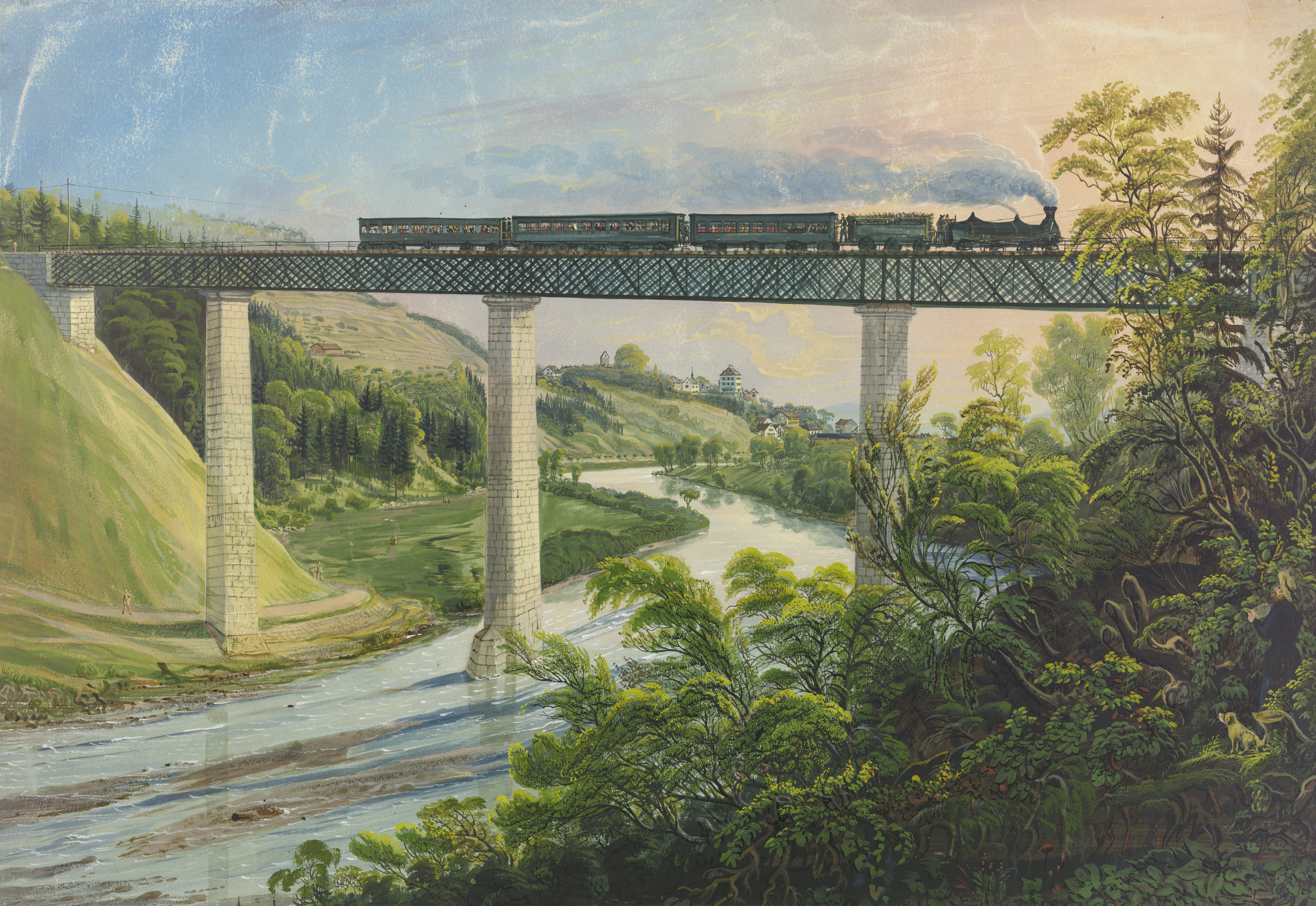 The Iron Thur Bridge, view from east from Regensdorf